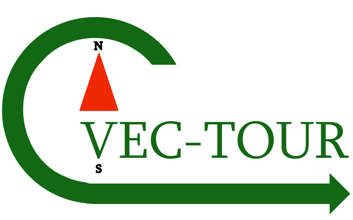 მოლაშქრეთა კლუბი - "ვექ-ტურის" ლოგო